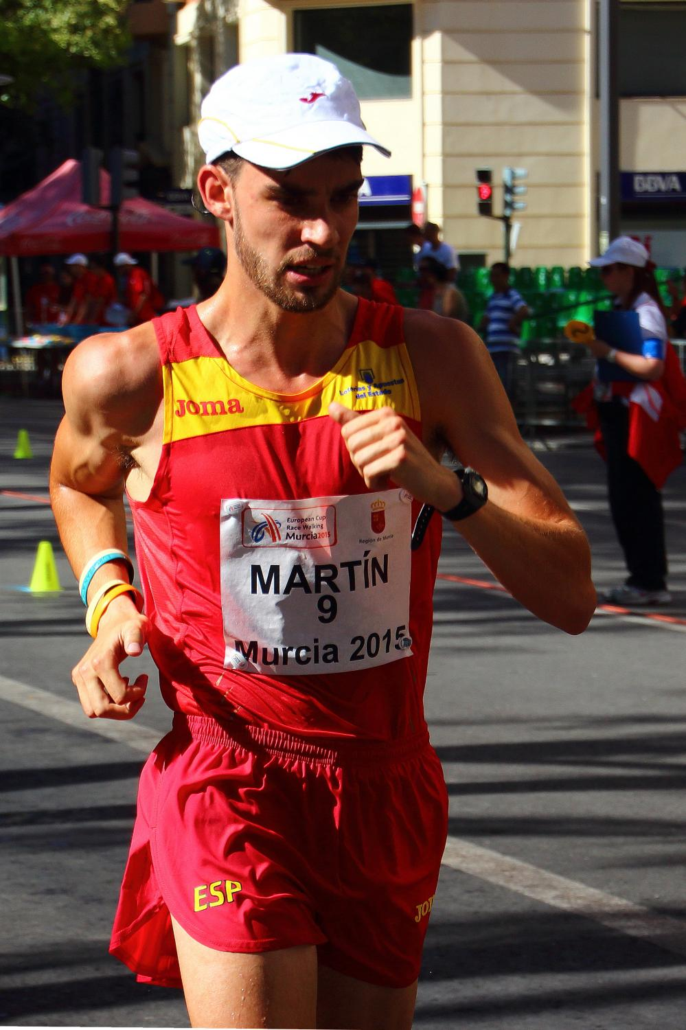 Alvaro Martin in the European Race Walking Cup. Murcia (Spain), May 17, 2015.